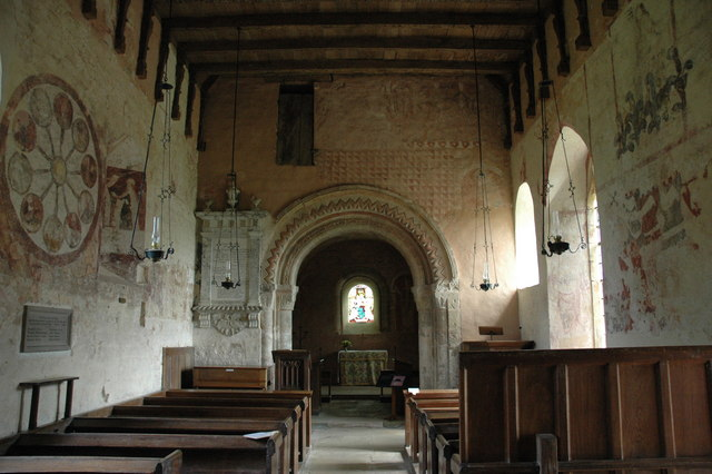 Interior of Kempley Church The nave of St Mary's church, Kempley. The walls of the church are decorated with some remarkable medieval paintings.